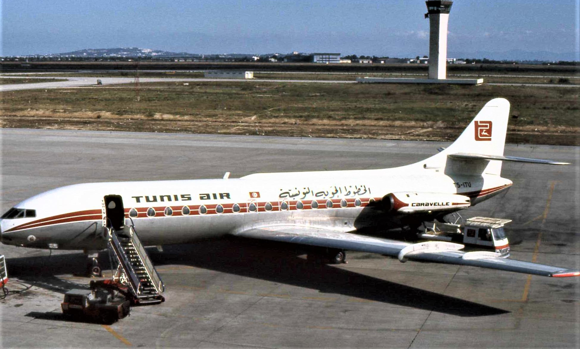 Tunis Air Sud Aviation Caravelle III, TS-ITU, c/n 146, delivered on February, 16, 1968 taken at Tunis Airport in 1973.